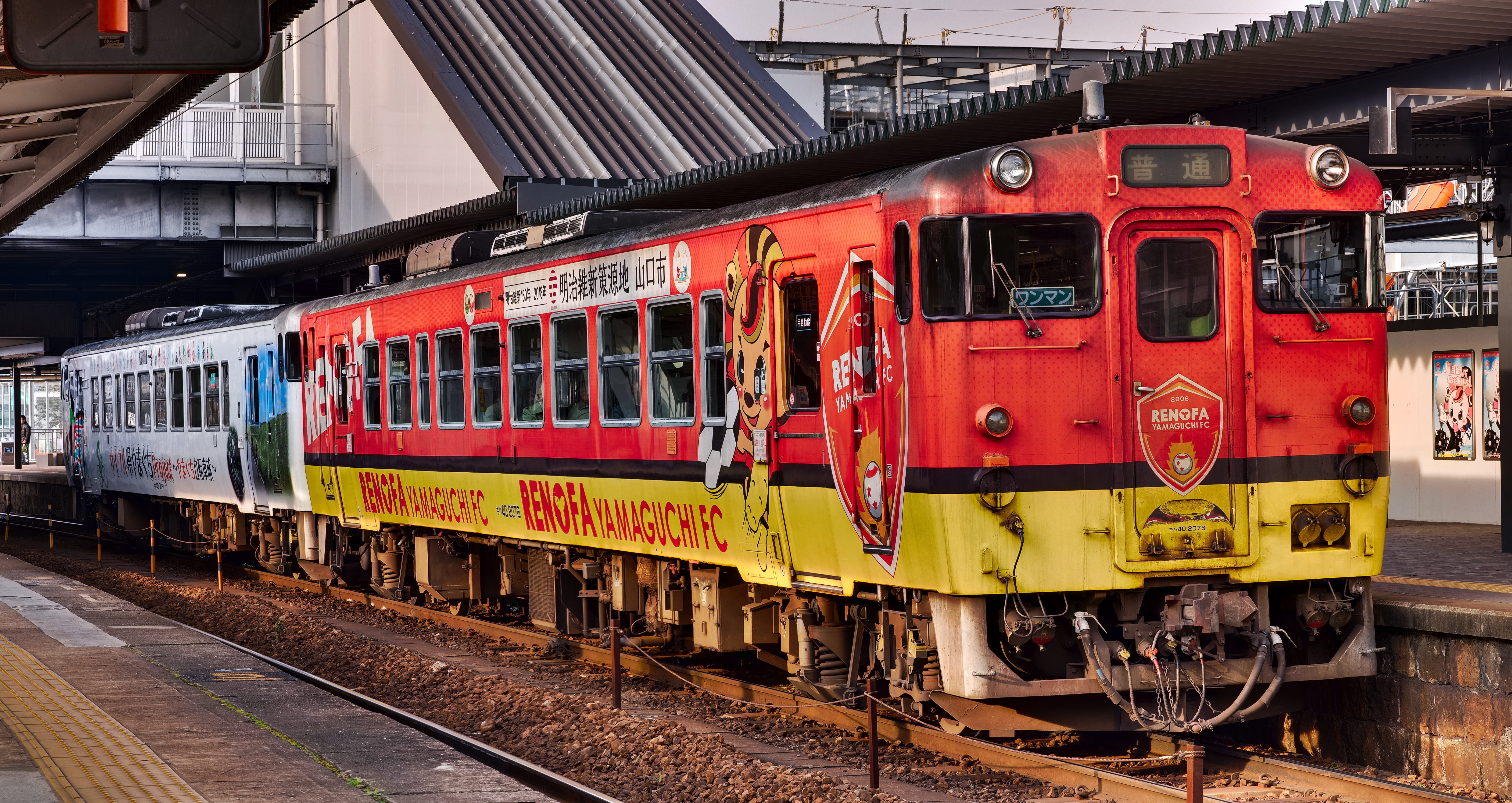 JR West Kiha 40 series DMU cars Kiha 40 2091 and Kiha 40 2076 at Shin-Yamaguchi Station